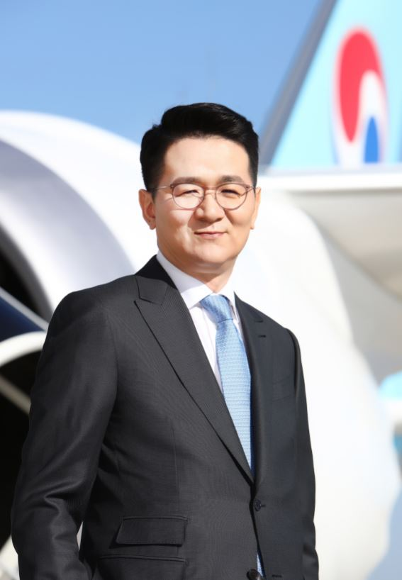 Walter Cho